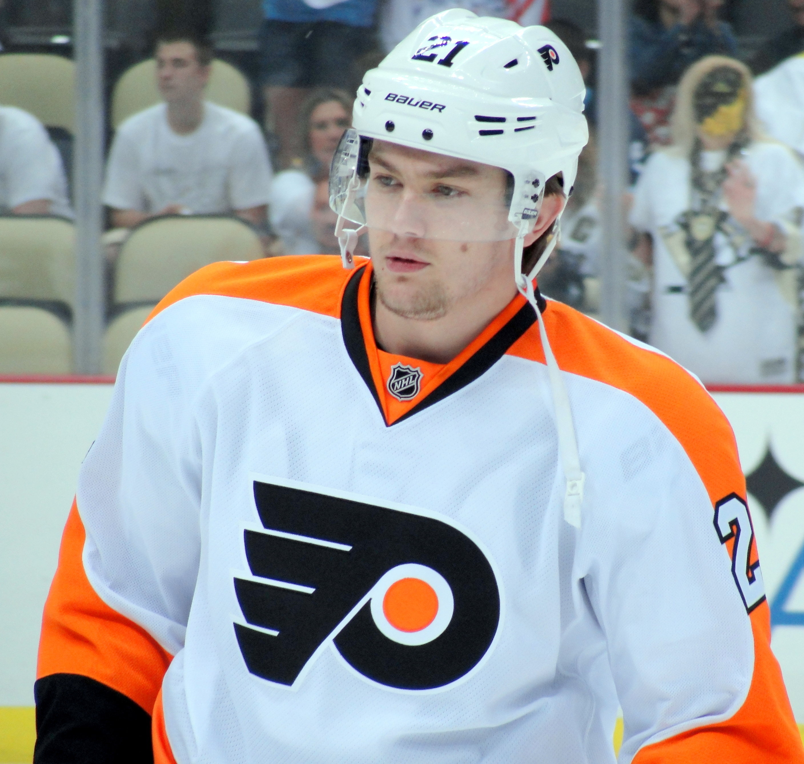 Philadelphia Flyers forward James van Riemsdyk during an April 20, 2012 playoff game against the Pittsburgh Penguins at Consol Energy Center in Pittsburgh, PA.